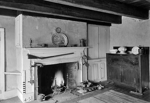 britton cottage interior staten island